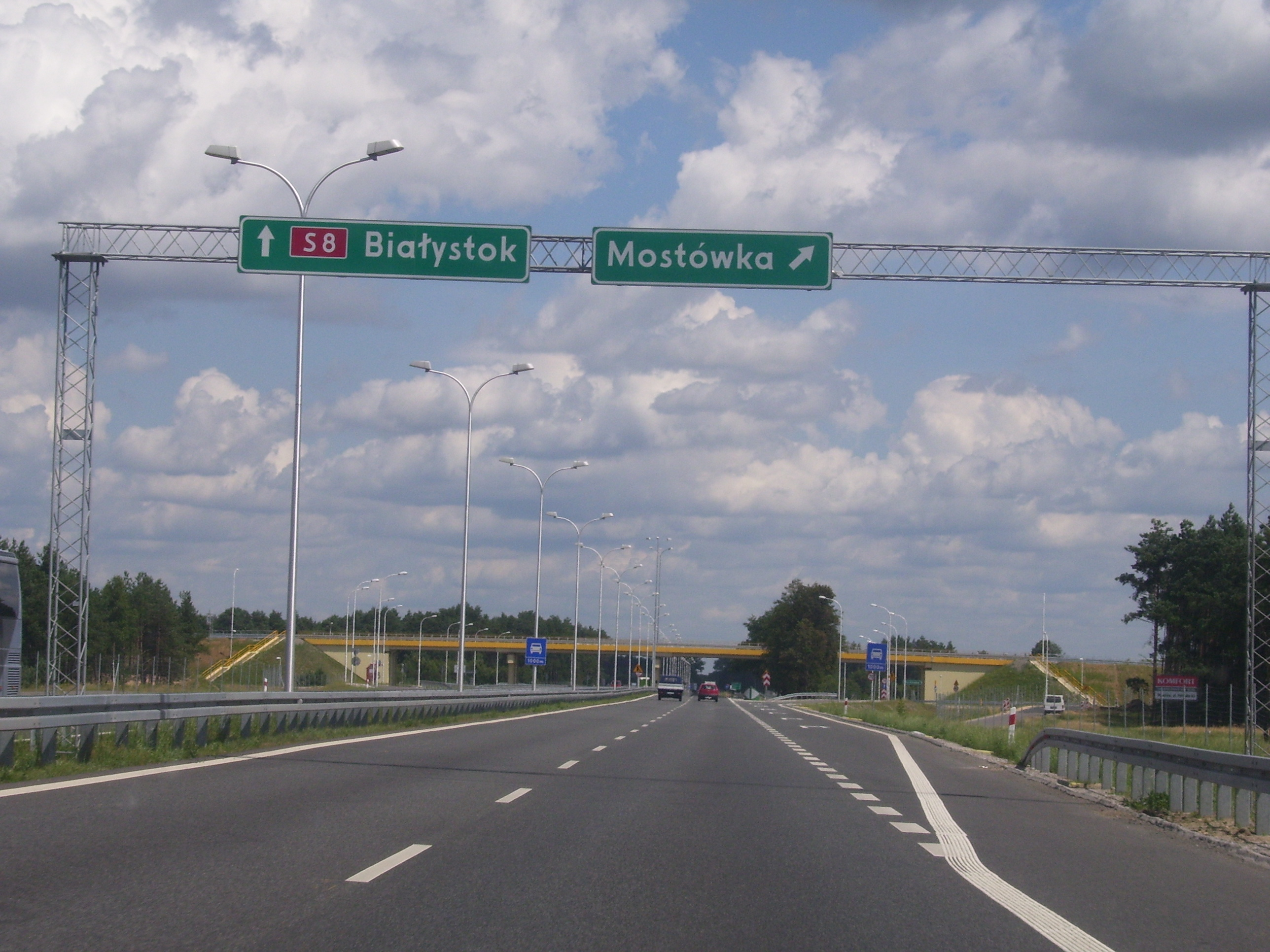 DK8 (Poland)